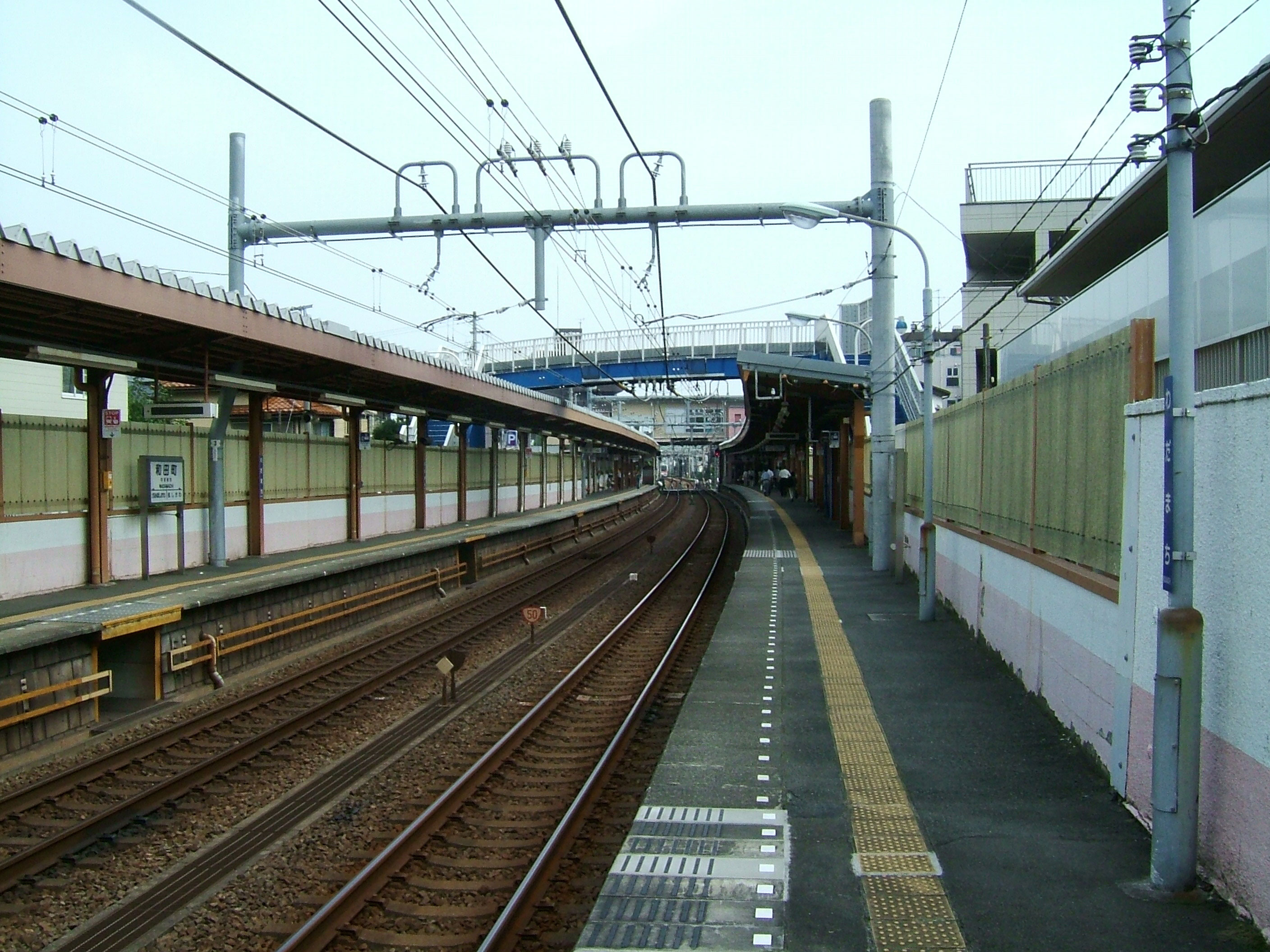 The platforms at Wadamachi Station on the Sagami Railway Main Line in Hodogaya-ku, Yokohama, Japan